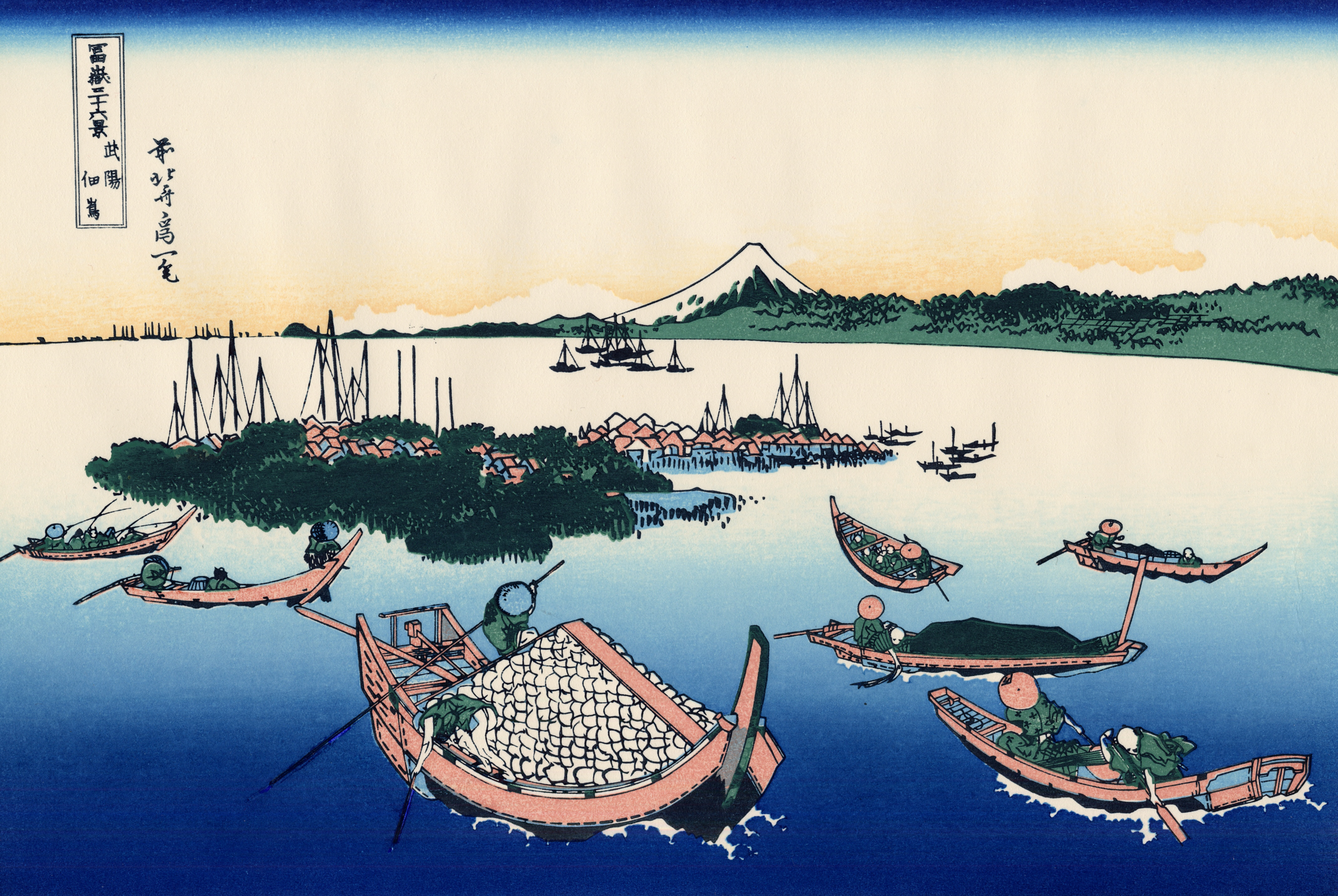 Part of the series Thirty-six Views of Mount Fuji, no. 16.